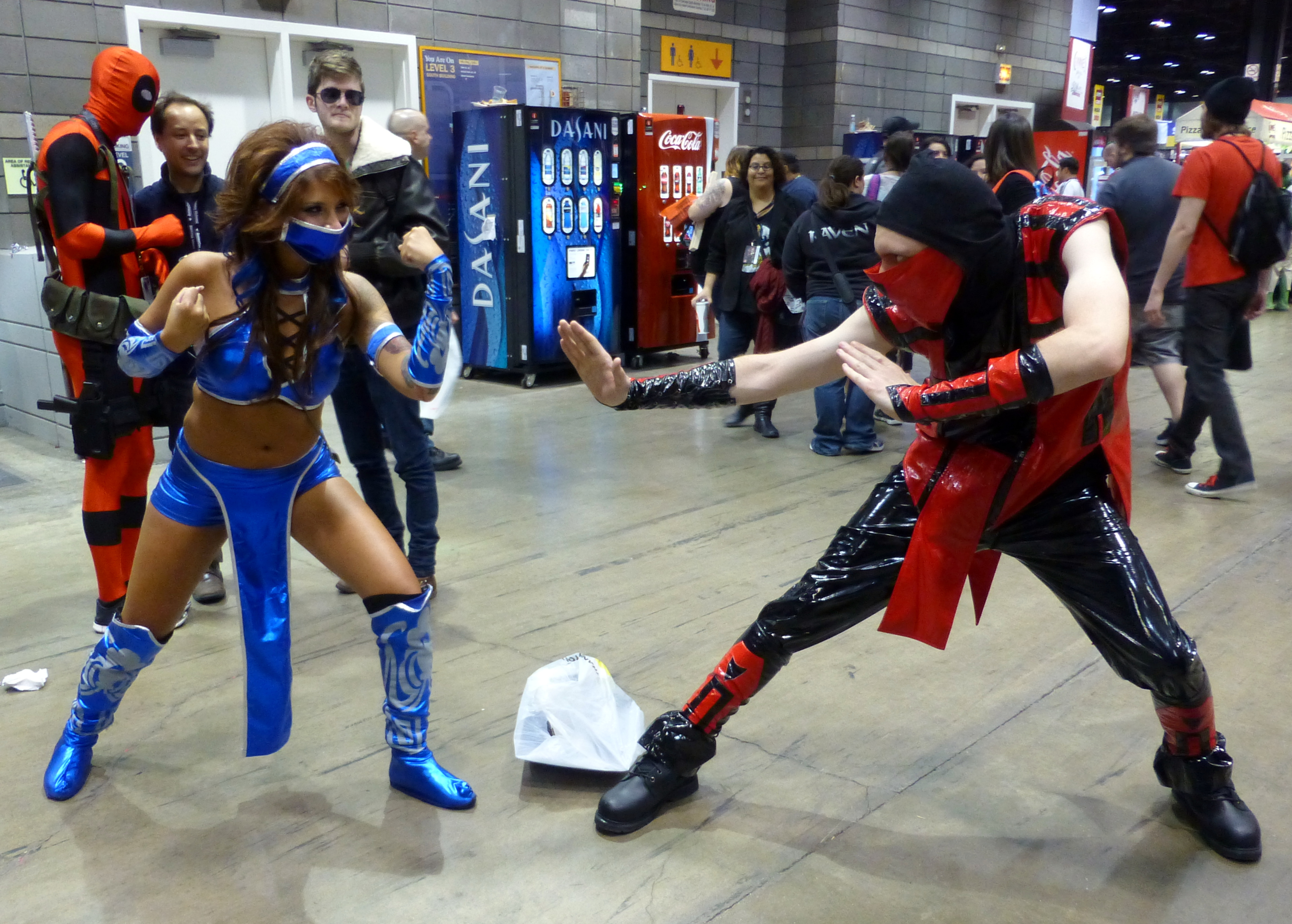 Kitana with Ermac, both of Mortal Kombat Cosplay at Chicago Comic & Entertainment Expo (C2E2) 2014.